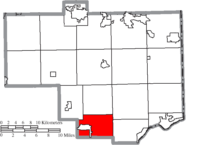 Map of the municipal and township boundaries of Columbiana County, Ohio, United States, as of the 2000 census, with the location of Washington Township highlighted. Township borders are shown only in unincorporated areas in order to differentiate incorporated and unincorporated areas more clearly.